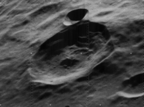 Oblique view of White, on the moon.